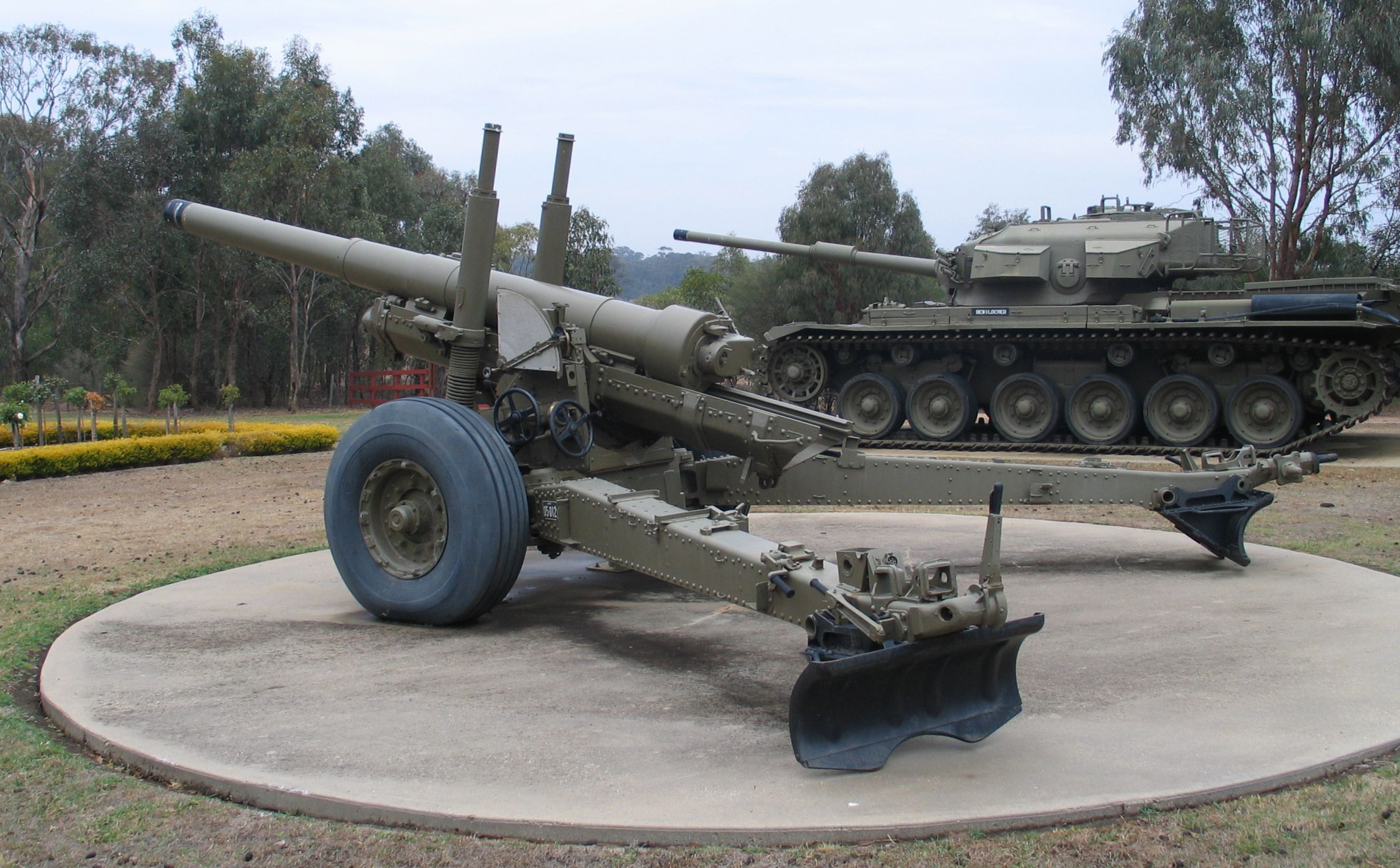 BL 5.5 inch Medium Gun, in the Puckapunyal Army Camp, Victoria, Australia.